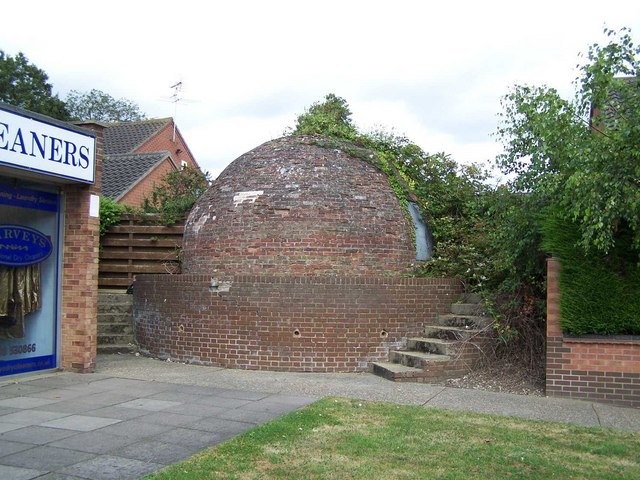 The Ice House, Long Stratton Formerly used by the local manor house to store ice for use in hot spells.